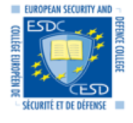 European Security and Defence College (ESDC) logo